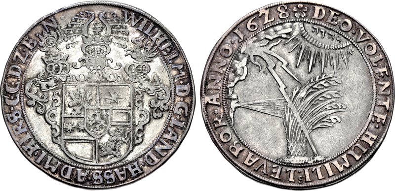 GERMANY, Hessen-Kassel. Wilhelm V. Landgrave, 1627-1637. AR Taler (44mm, 28.45 g, 6h). Dated 1628. WILHELM • D • G • LAND • HASS • ADMI • HIRS • C • C • D • Z • E • N •, coat of arms surmounted by three helmets / DEO • VOLENTE • HUMILIs • LEVAROR • ANNO • 1628, willow tree being buffeted by storm and struck by lightning from the clouds; above, sun inscribed “Jehovah” in Hebrew. Schütz 744; Davenport 6736. Good VF, toned.